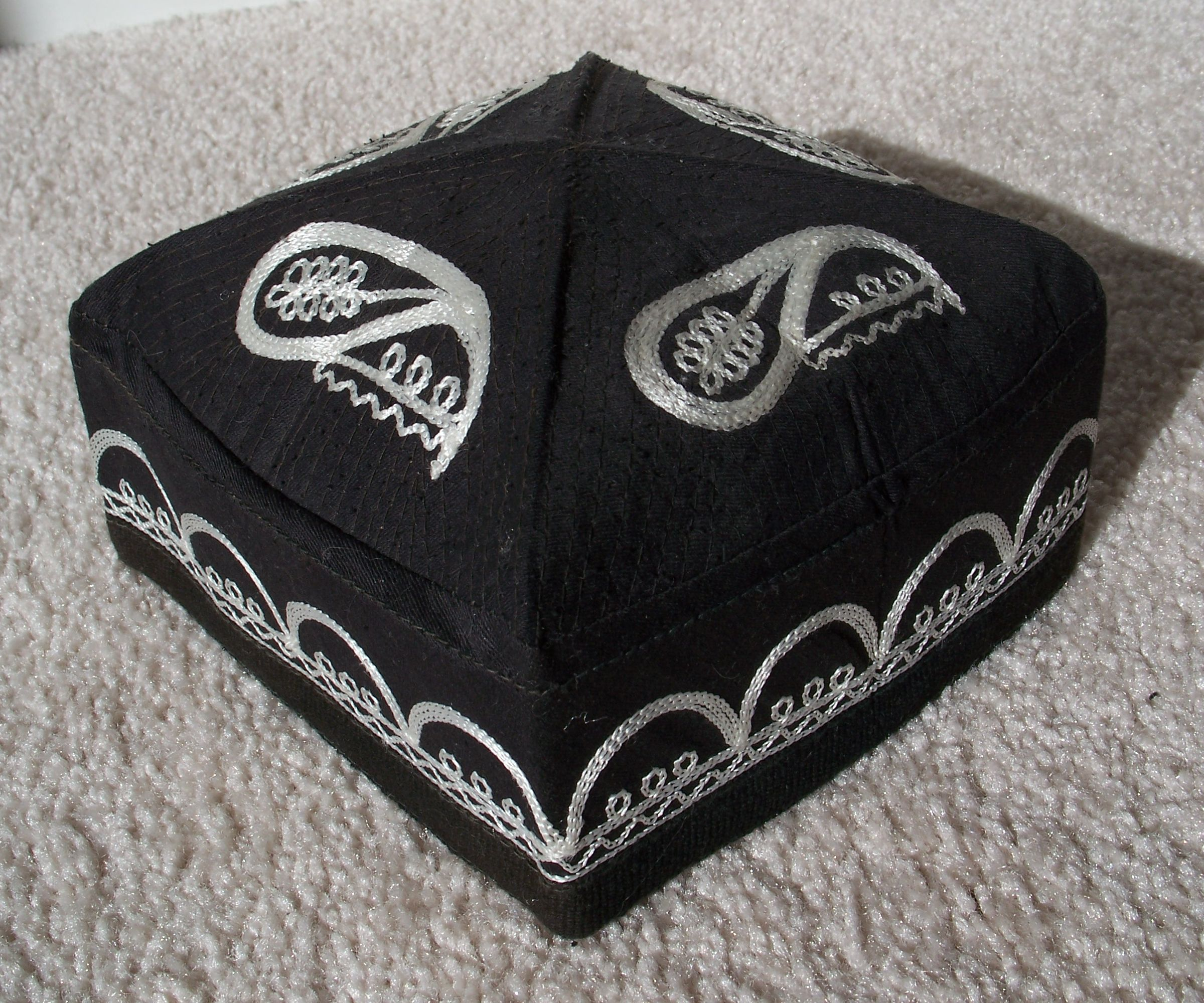 Tajik tubeteika